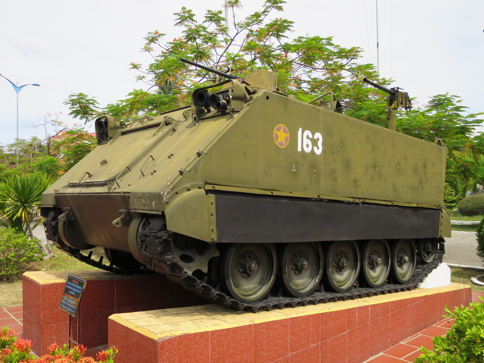 M113 at Zone 5 Military Museum, Danang